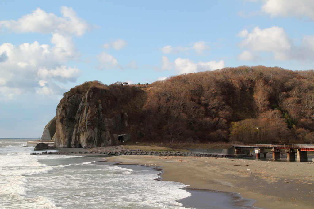 The Pacific coast in Niikappu, Hokkaidō. See the map. Canon EOS Kiss X4